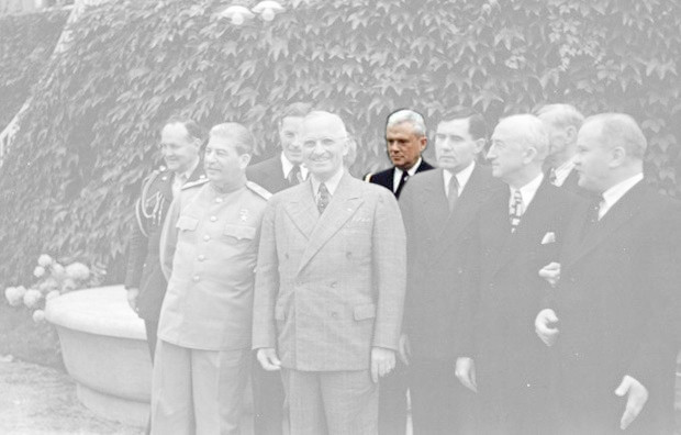 Harry S. Truman and Joseph Stalin meeting at the Potsdam Conference on 18 July 1945. From left to right, first row: Stalin, Truman, Soviet Ambassador Gromyko, US Secretary of State Byrnes, and Soviet Foreign Minister Molotov. Second row: Truman confidant Vaughan [1], Russian interpreter Bohlen, Truman naval aide Vardaman, and Ross (partially obscured).